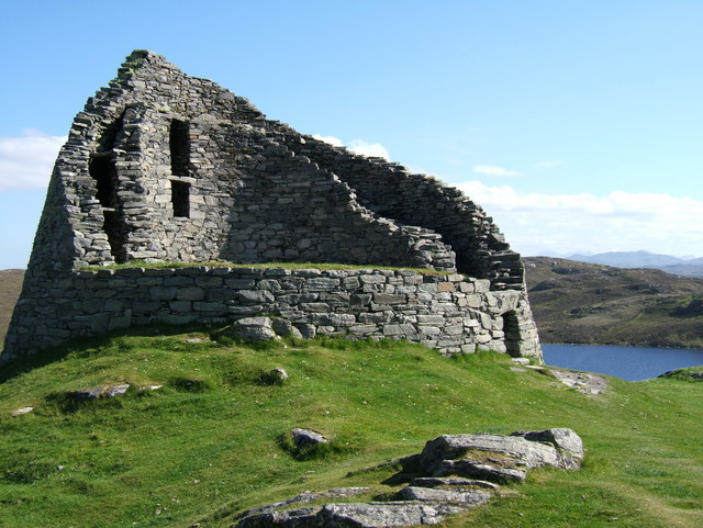 Dun Carloway Broch, Lewis